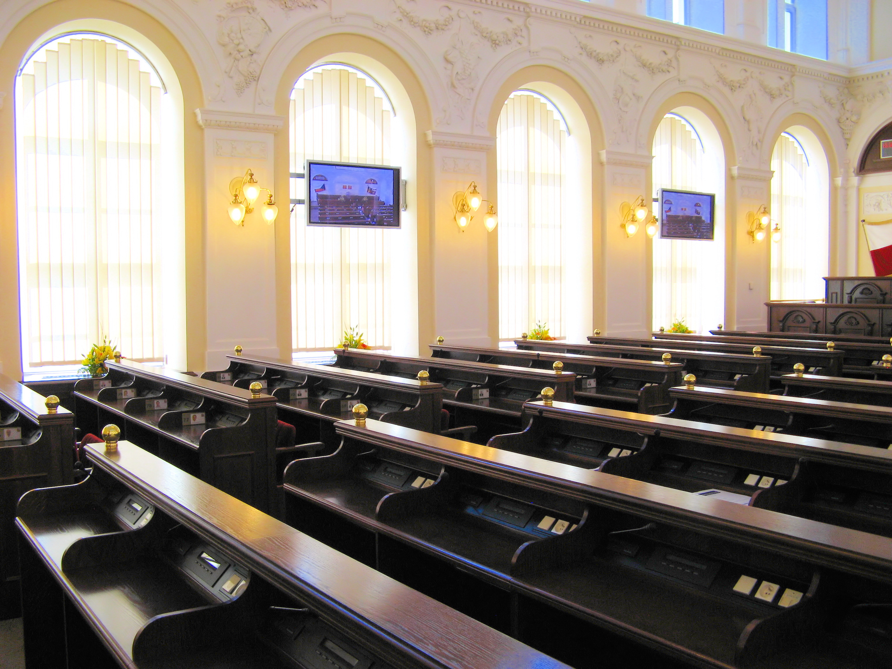 New regional palace, Zerotinovo square 3/5, Brno, Czech Republic. Assembly hall.